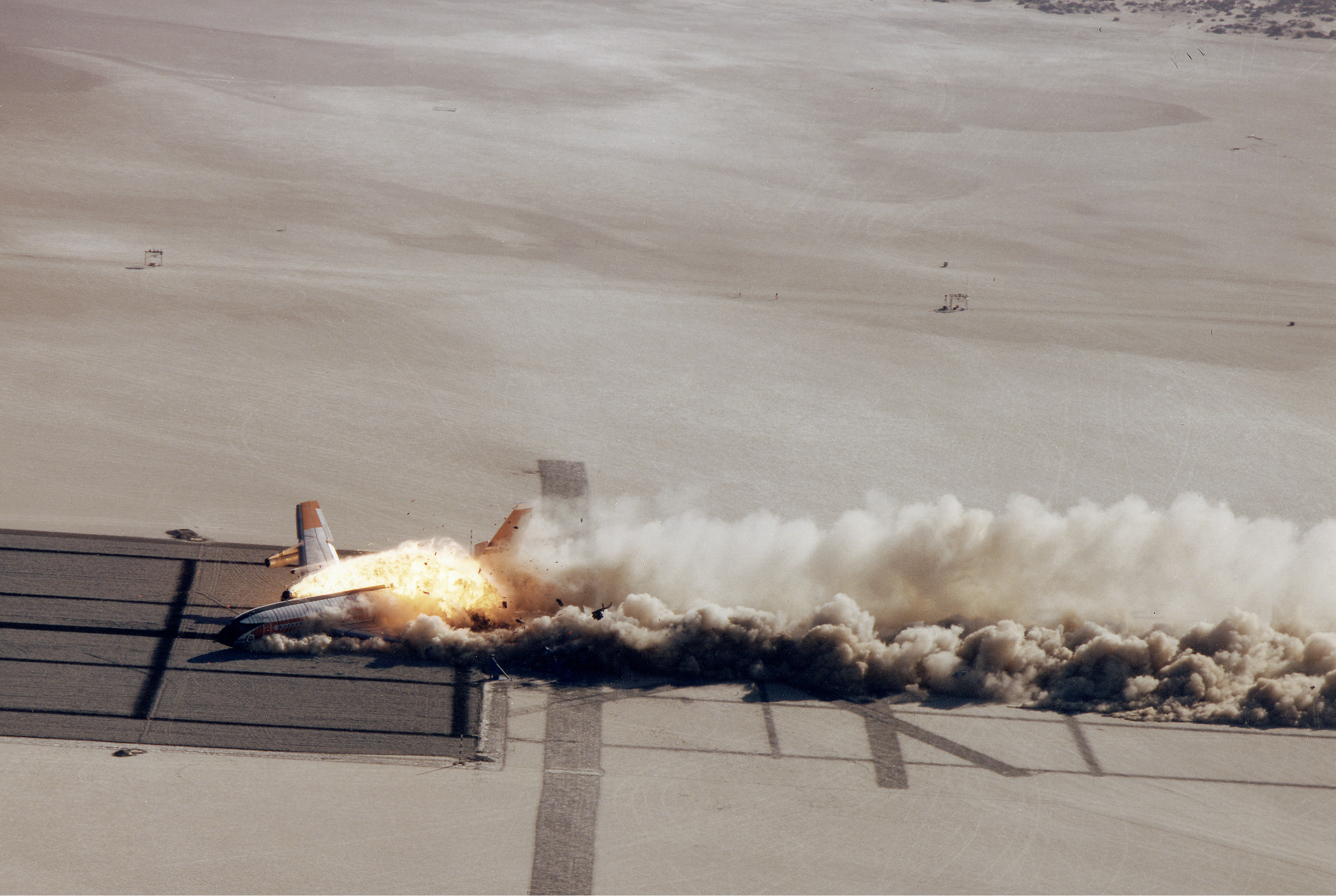 CID Aircraft post-impact lakebed skid